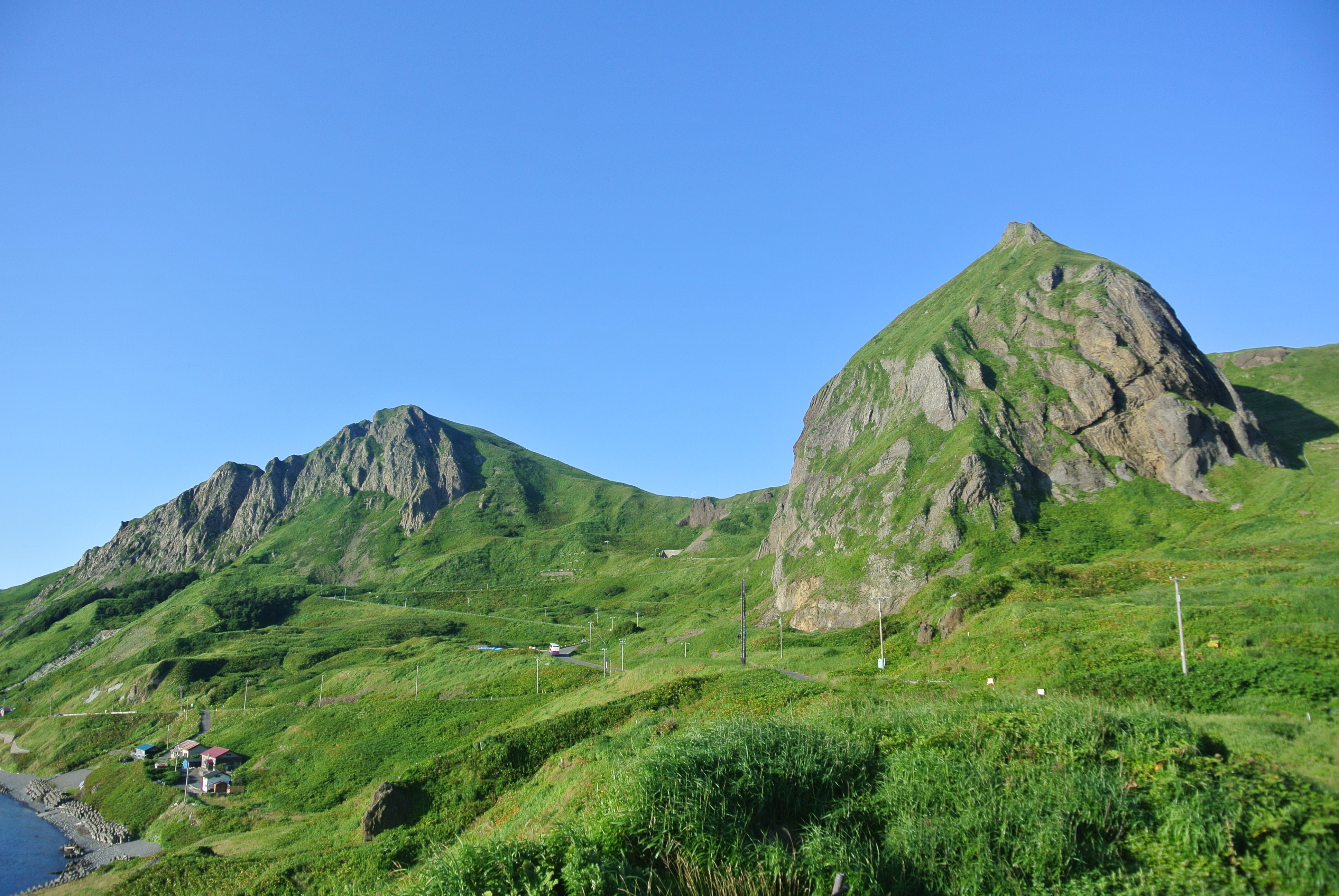 Peach rock in Rebun Island